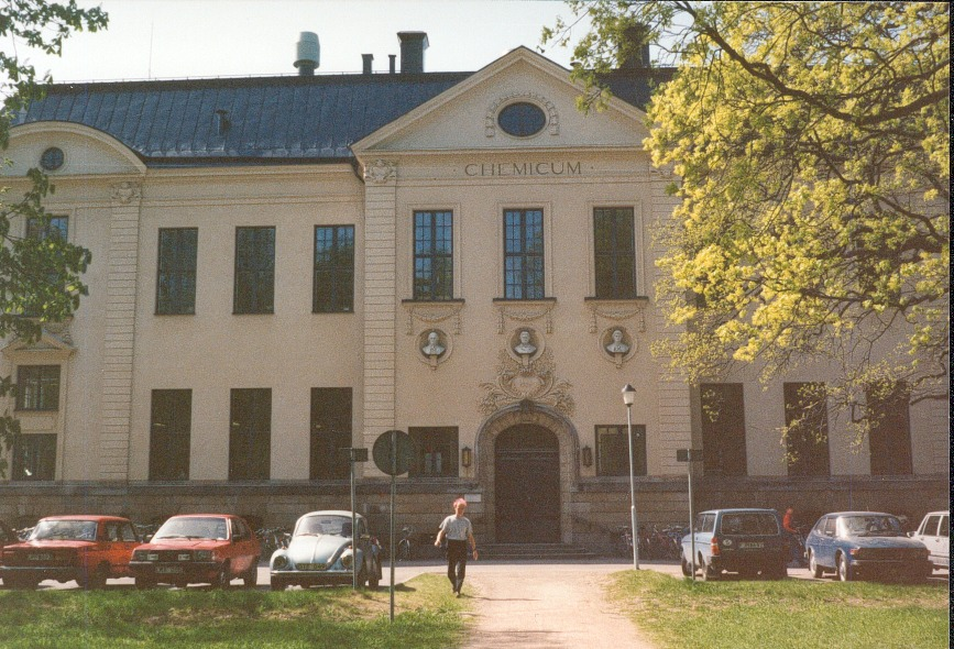 Uppsala University: "Gamla Chemicum" ("Old Chemicum"), the old Chemical department which is now part of the English Park Centre for the Humanities. Busts over the entrance portray Torbern Bergman, Jöns Jacob Berzelius and Carl Wilhelm Scheele.